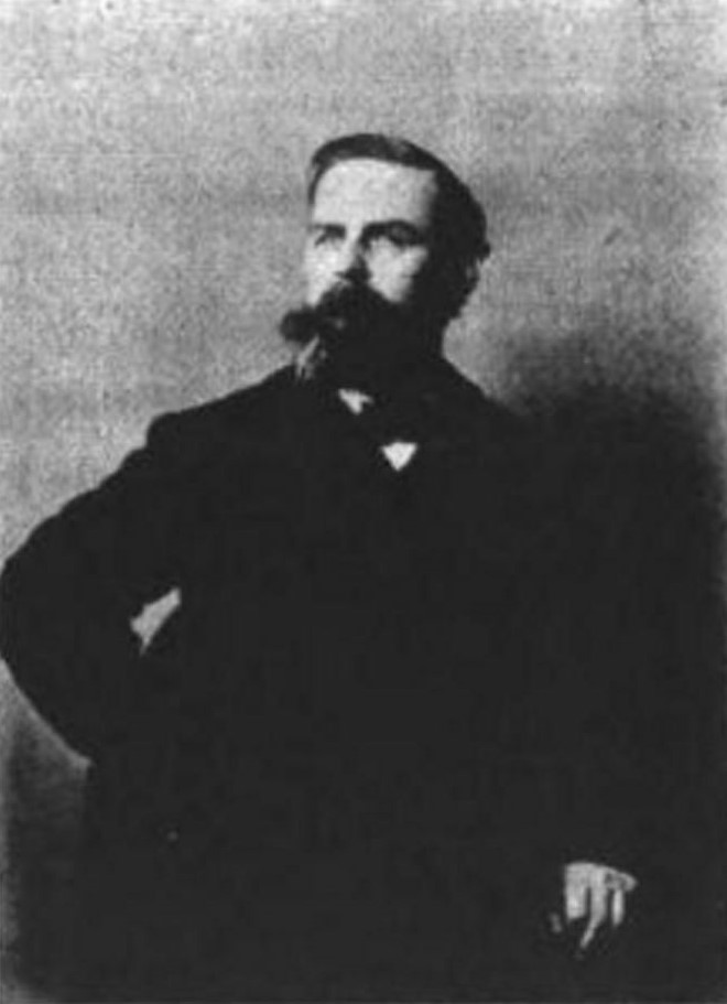 Lambert Packard, c.1904. Packard was a leading 19th-century Vermont architect, practicing from his office in St. Johnsbury.